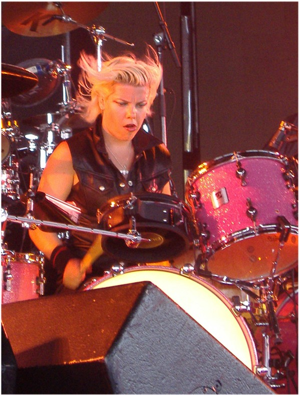 Drummer Samantha Maloney, on tour with Peaches in 2006. She has also been a member of Hole, Mötley Crüe, and the Eagles of Death Metal.